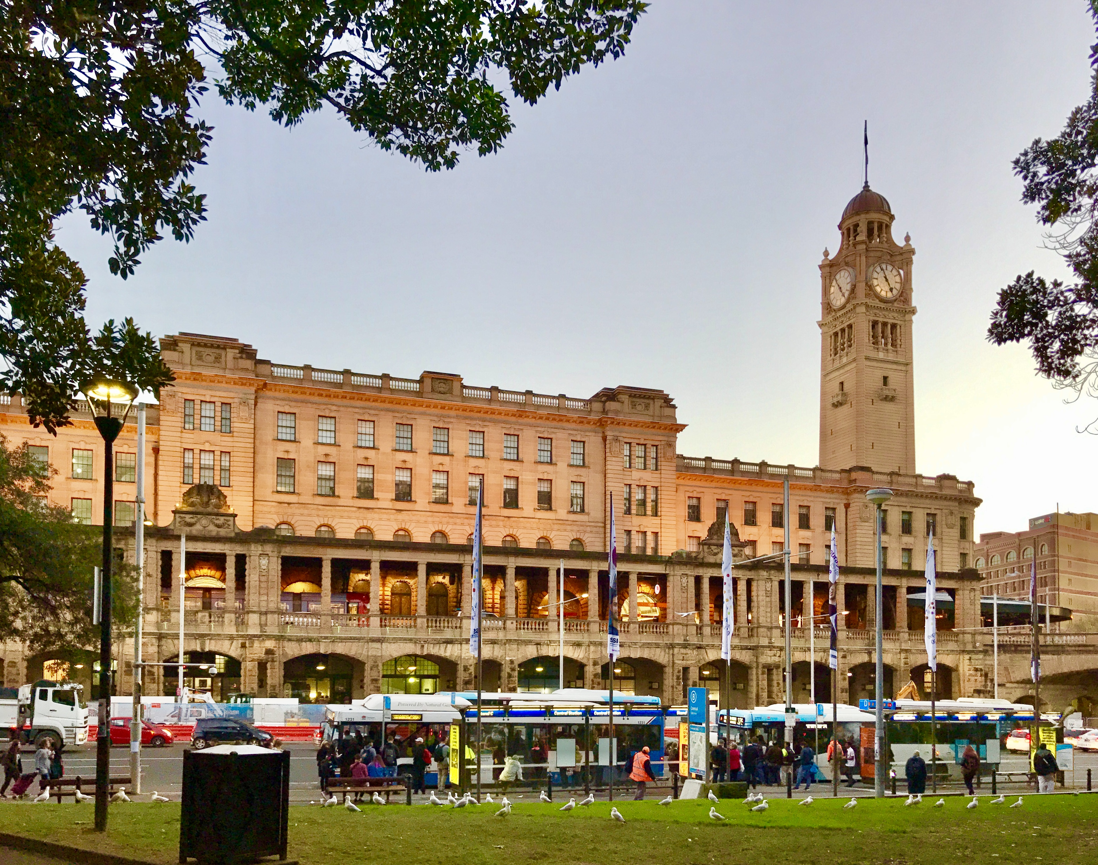 Central railway station, Sydney at sunset